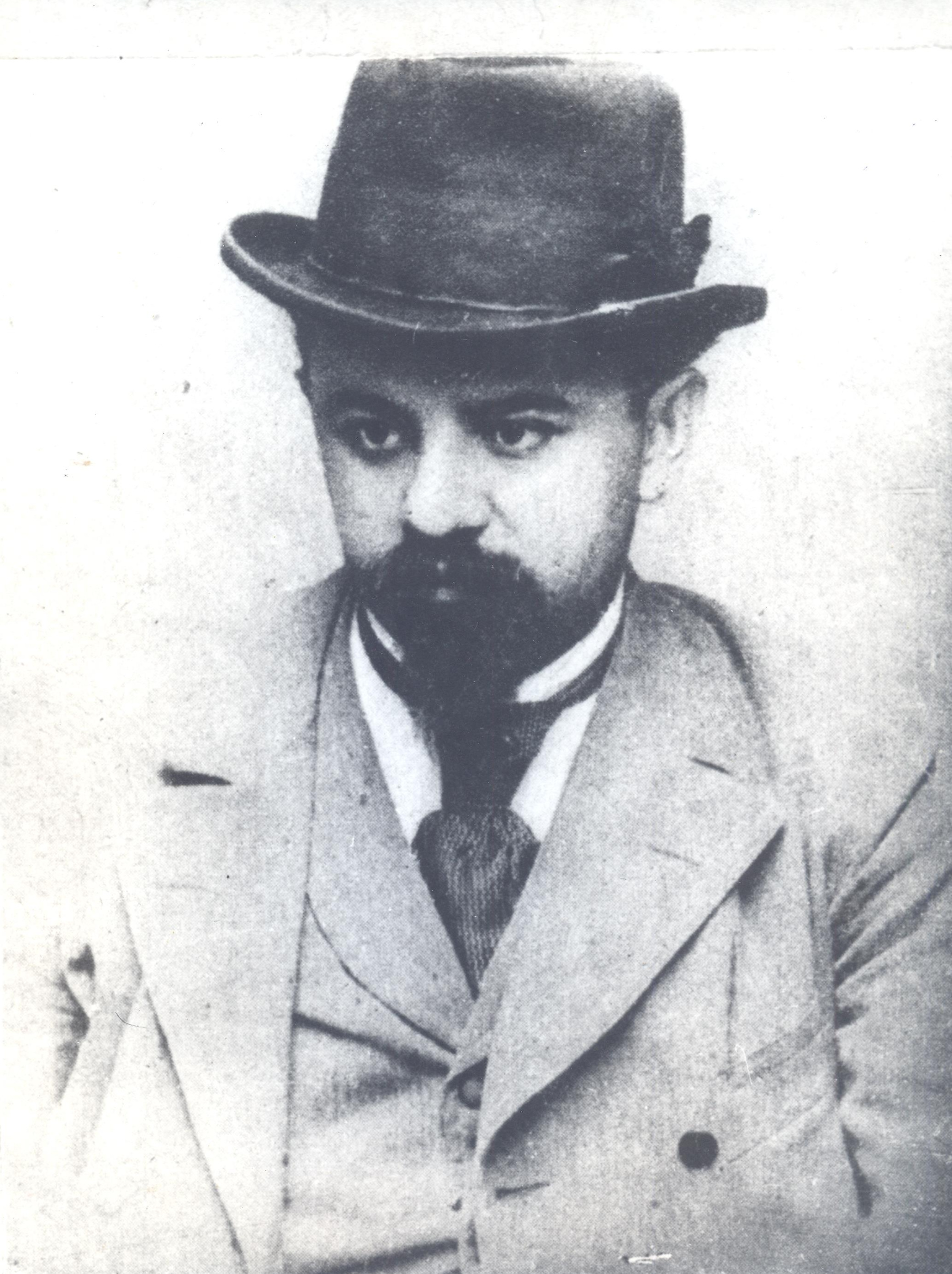 Pencho Slaveykov